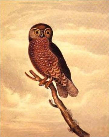 Norfolk Island Boobook (Ninox novaeseelandiae undulata) watercolor by James Stuart (1839). Mitchell Library, State Library of New South Wales.